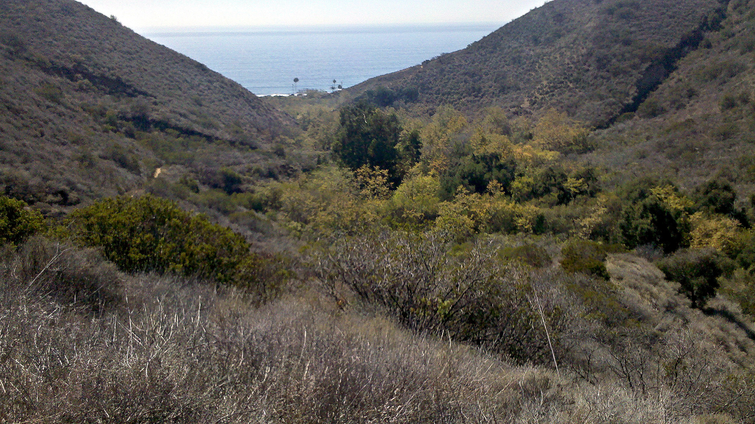 Coral Canyon Park, Santa Monica Mountains, CA, USA